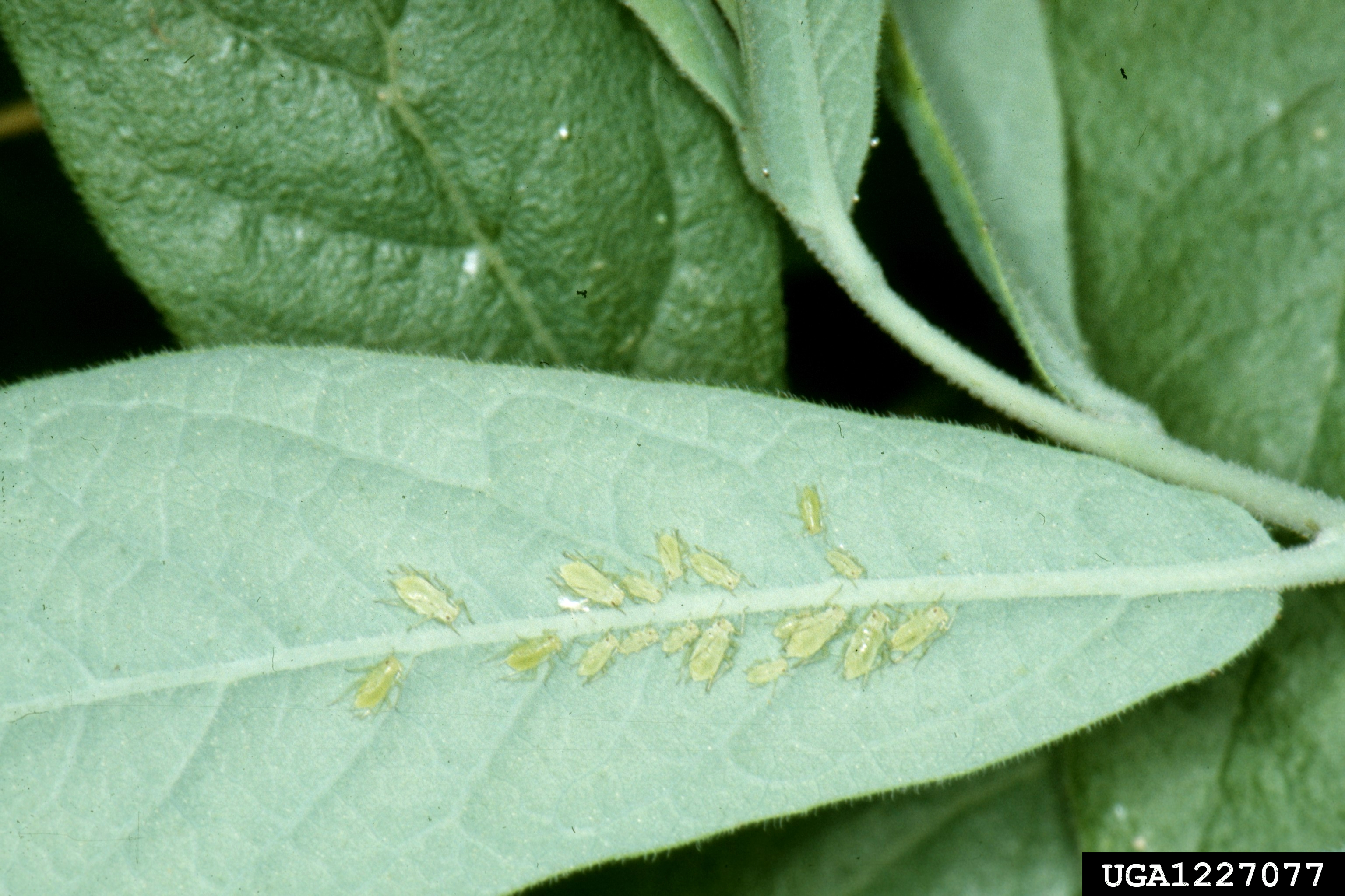 Photograph of a blueberry aphid, Illinoia pepperi, colony on a leaf of a blueberry bush. Jerry A. Payne, USDA Agricultural Research Service